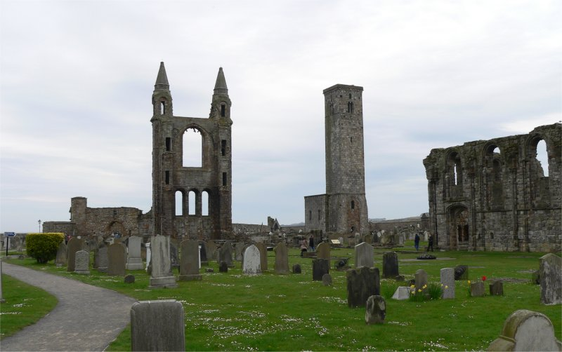 St Andrews Cathedral and St Rule's Church, in St Andrews, Scotland